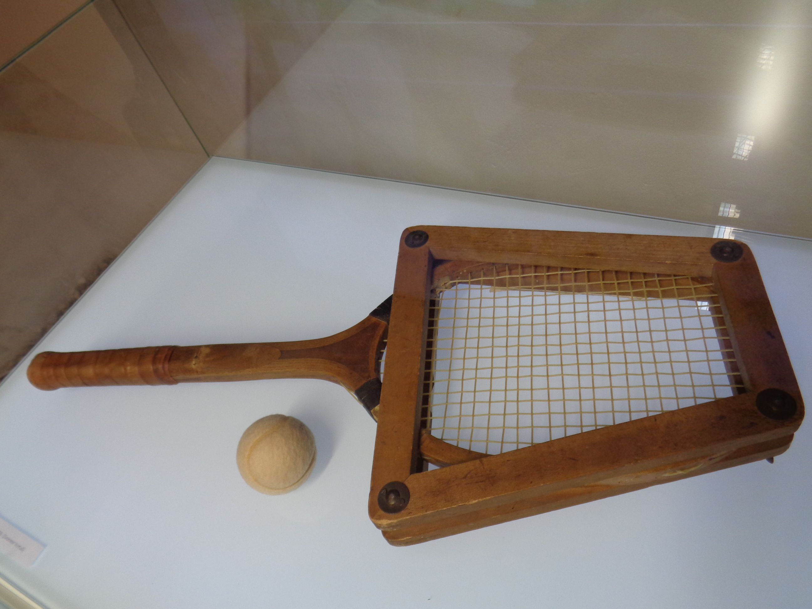 Tennis racket of Franjo Punčec (1913-1985), top-level Croatian tennis player, at the 2018 Night of museums in Međimurje County Museum, Čakovec, Croatia